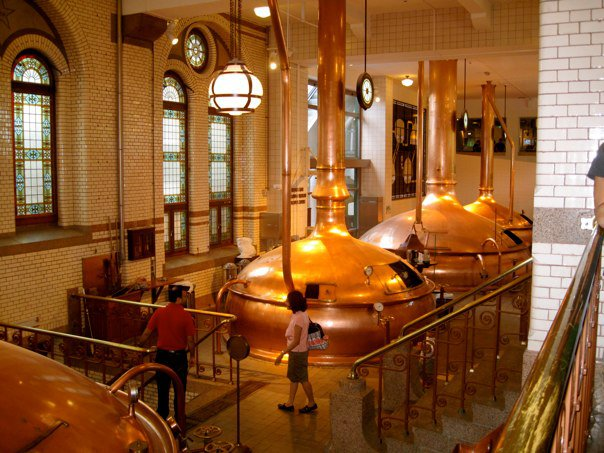 Interior of the Heineken Experience in Amsterdam, The Netherlands.